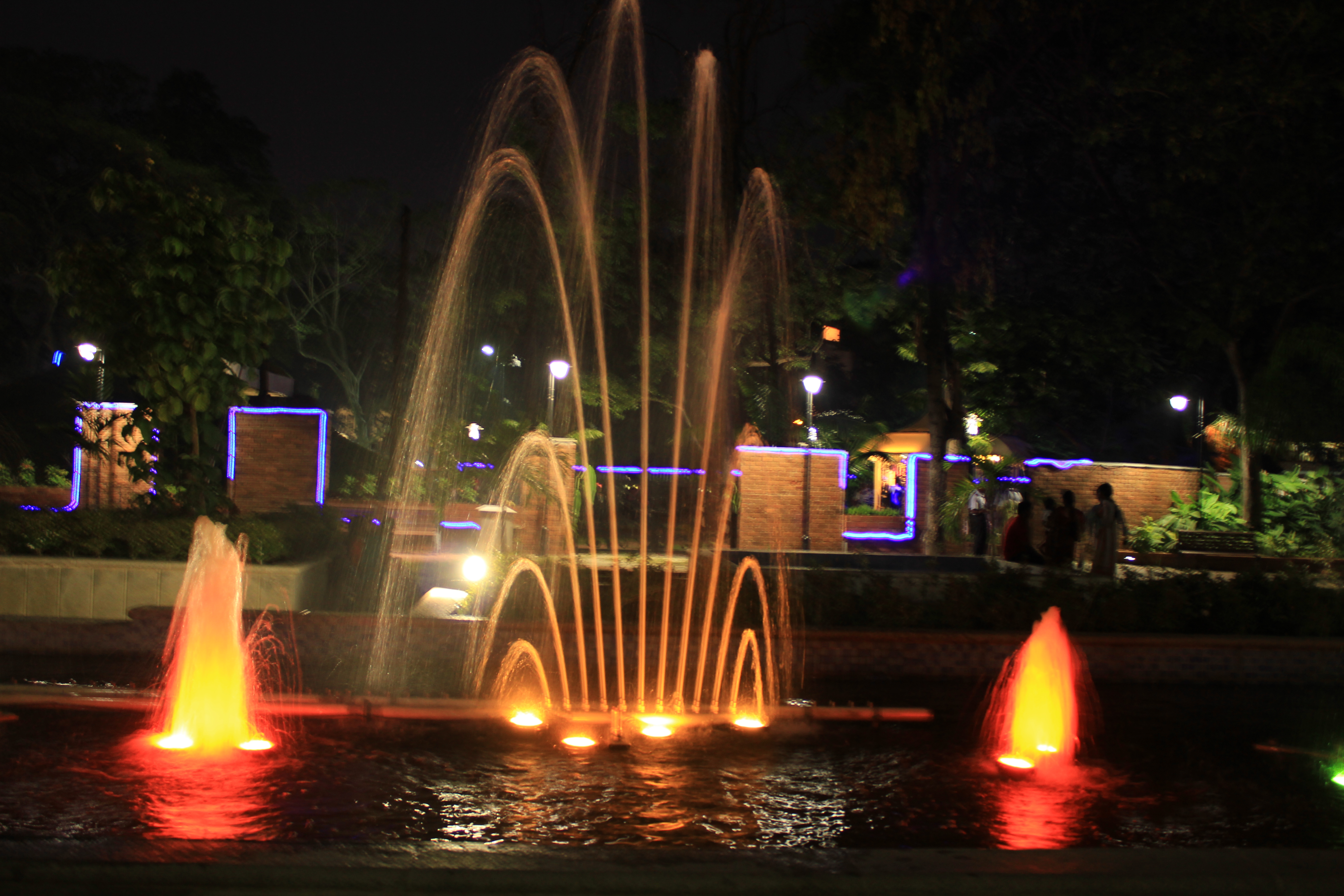 The dancing lights photographed by Eashchand (talk) at Semmozhi Poonga, Chennai